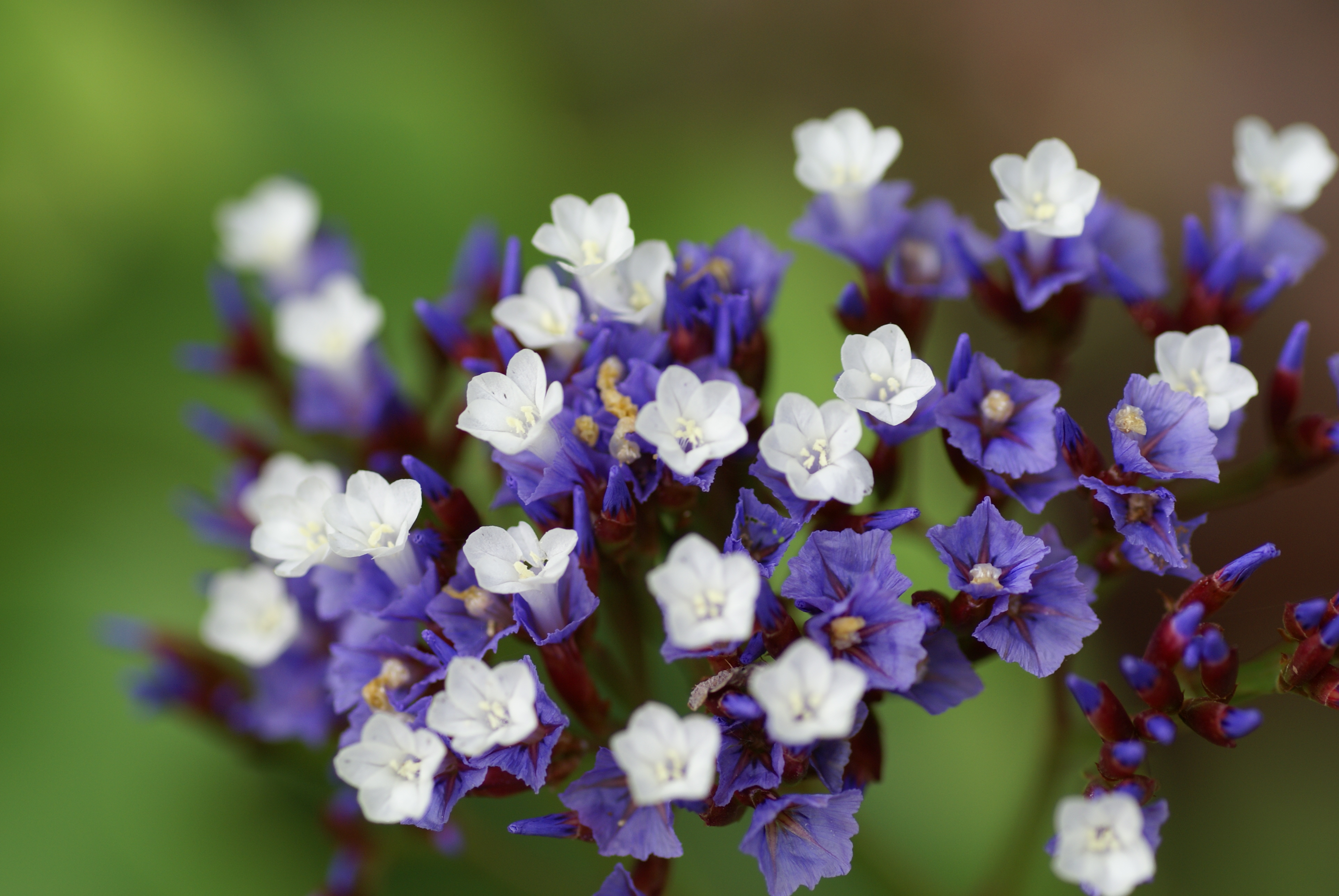 Flowers of plant species Limonium macrophyllum in botanical garden in Puerto de la Cruz on Tenerife.